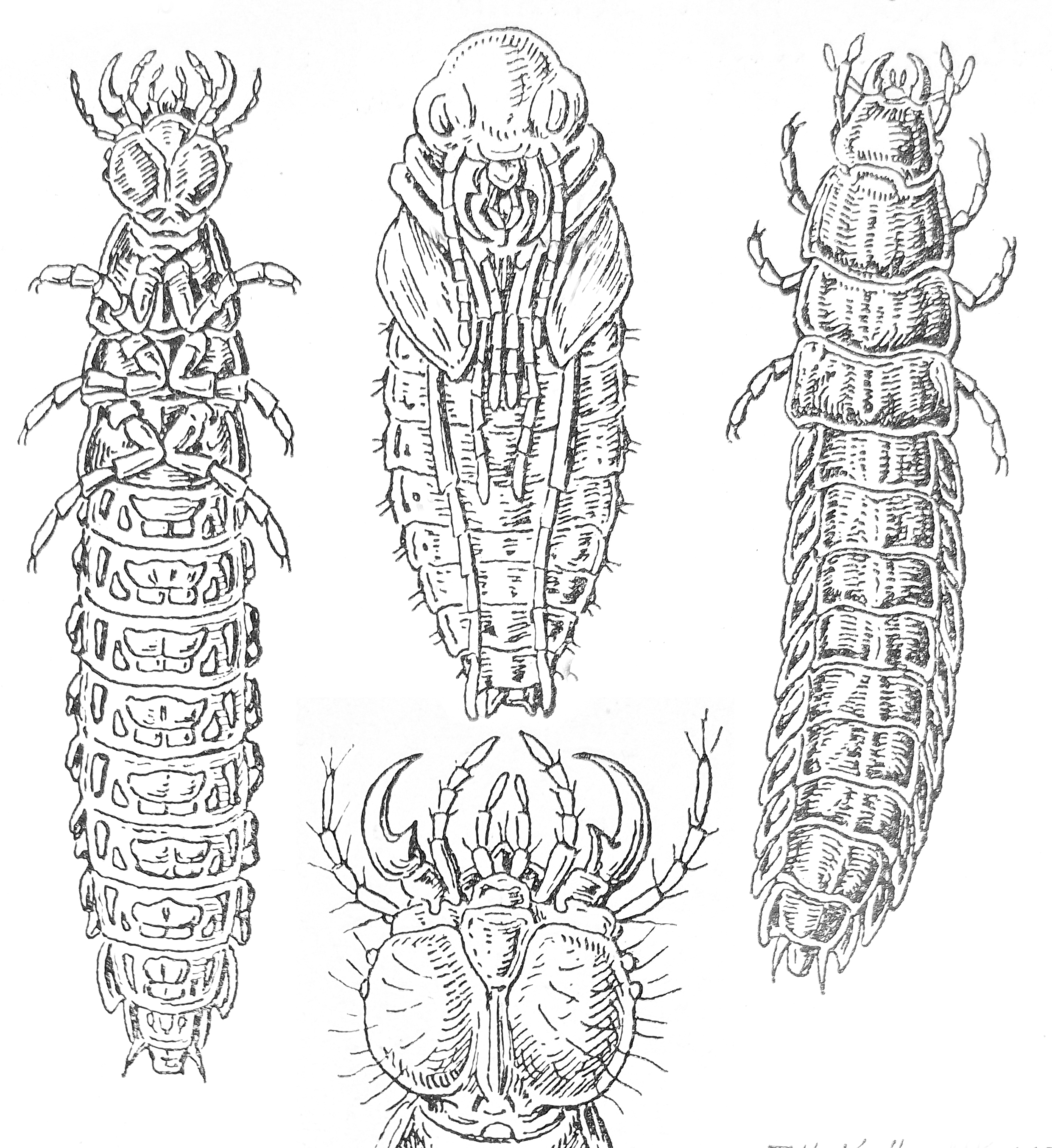 Carabus auratus right:larva upside left: larva downside middle up:pupa middle down:head larva from downside after Kurt Lampert, Bilder aus dem Käferleben, Stuttgart, Verlag Strecker & Schröder 1909 page 4